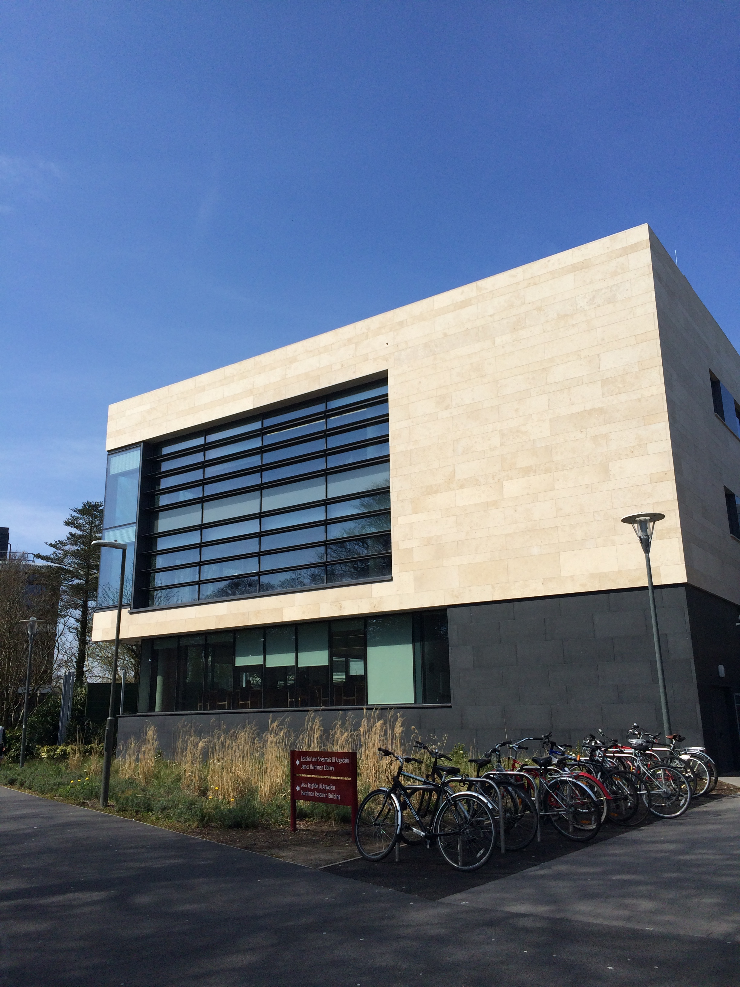 The back view of the James Hardiman Library at NUI Galway